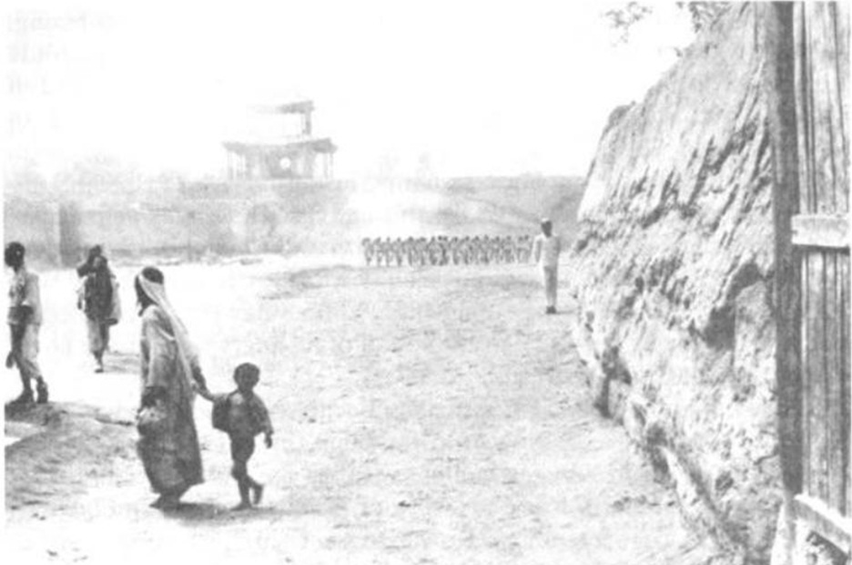 Chinese muslim riflemen of the 36th division under General Ma Hushan drill at Khotan in 1933